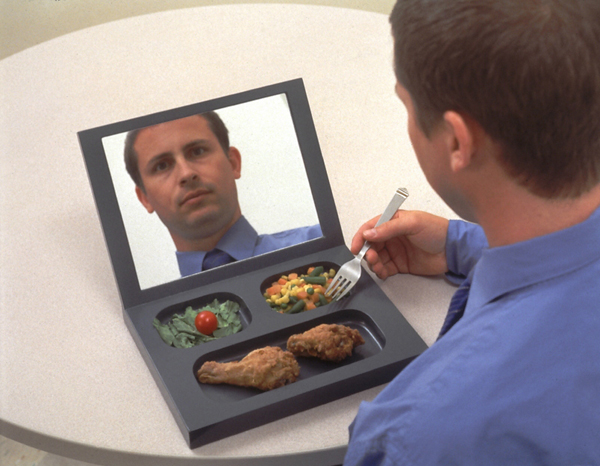 'Face Time Concept' Roman deSalvo